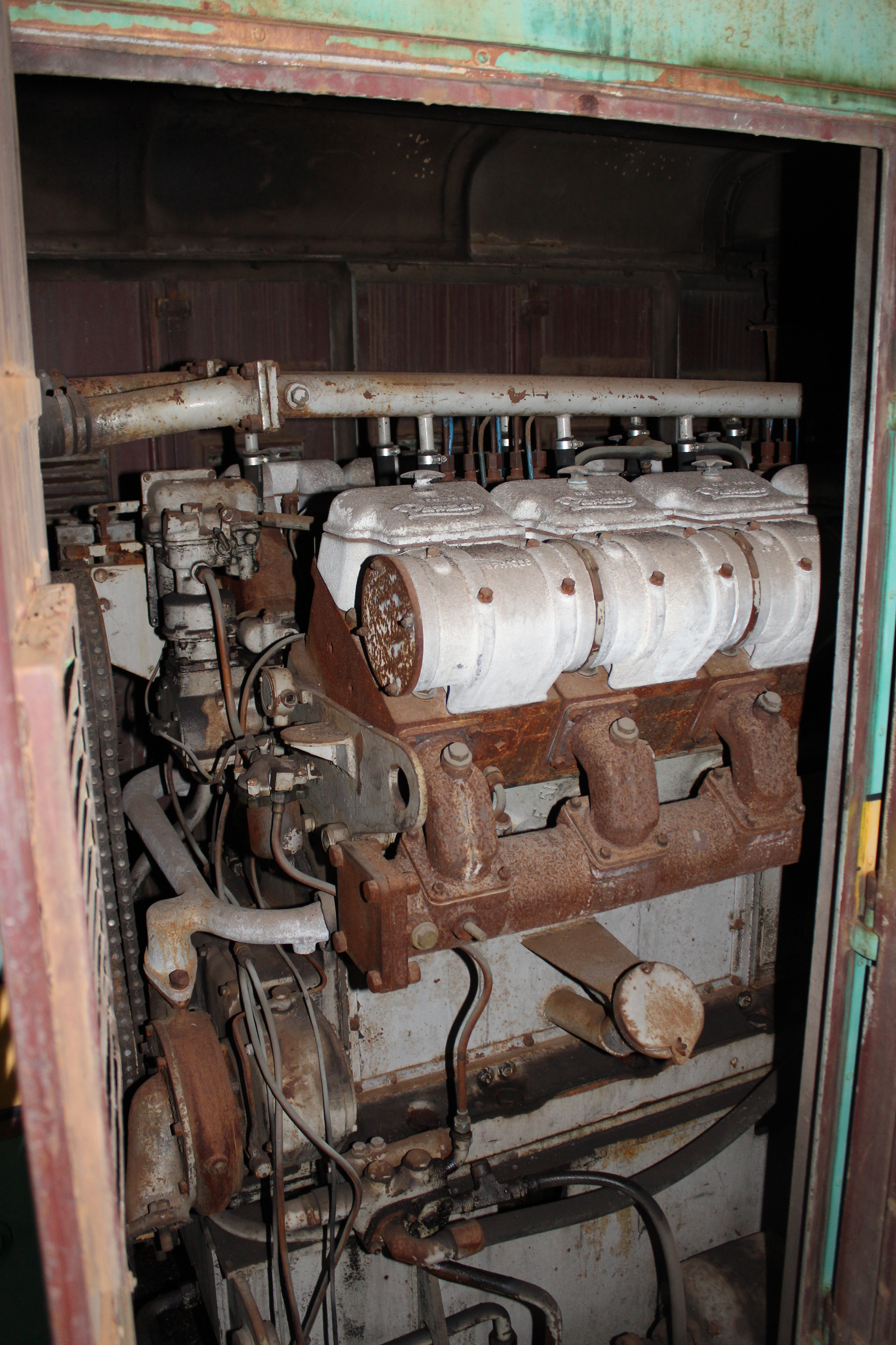 The Paxman diesel engine of Department of Railways NSW diesel electric loco 4102